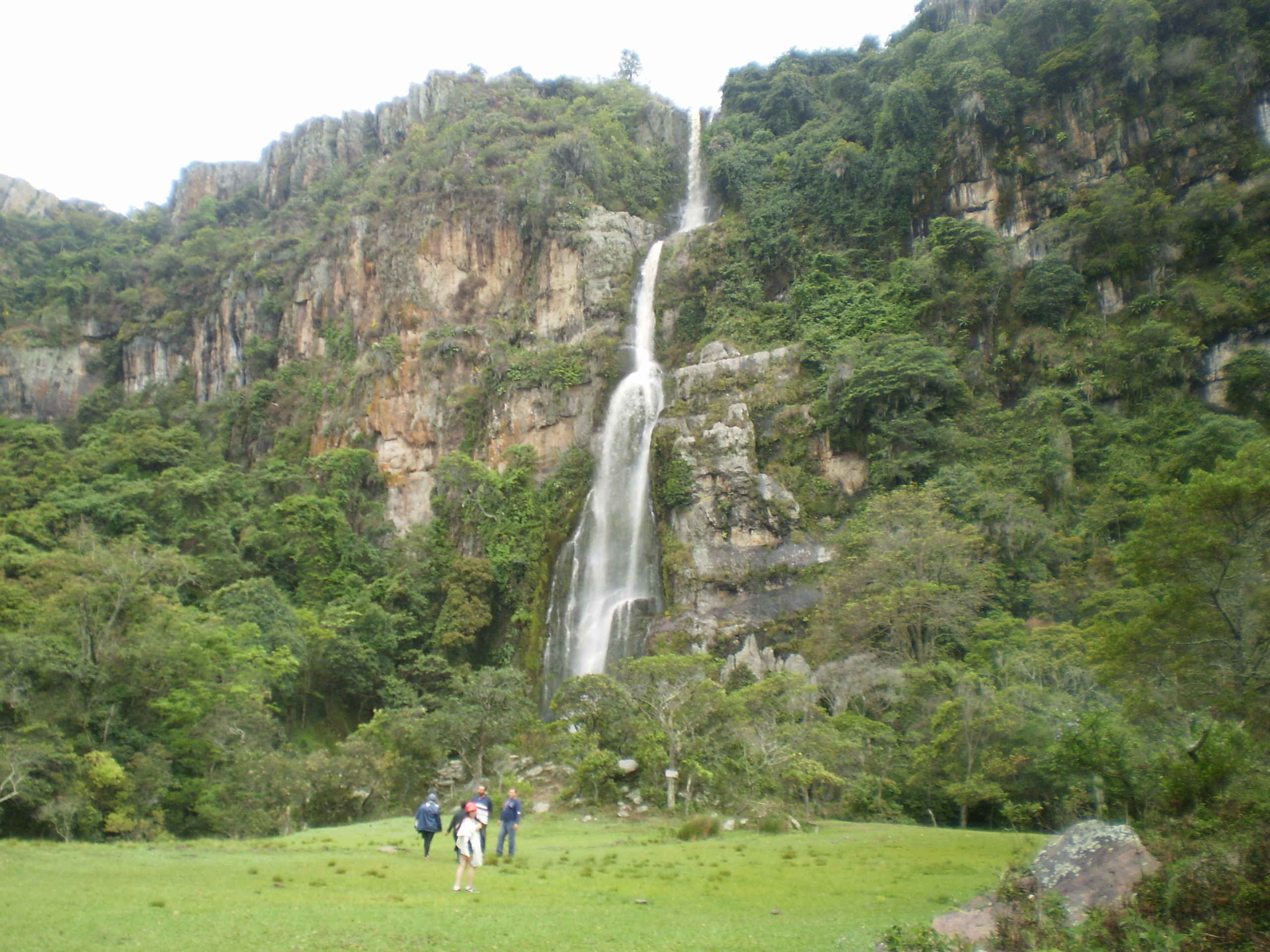 beautiful waterfall color of red wine, this is due to a mineral found in the rocks, is a place to spend the day the weather is cool and the water is very cold